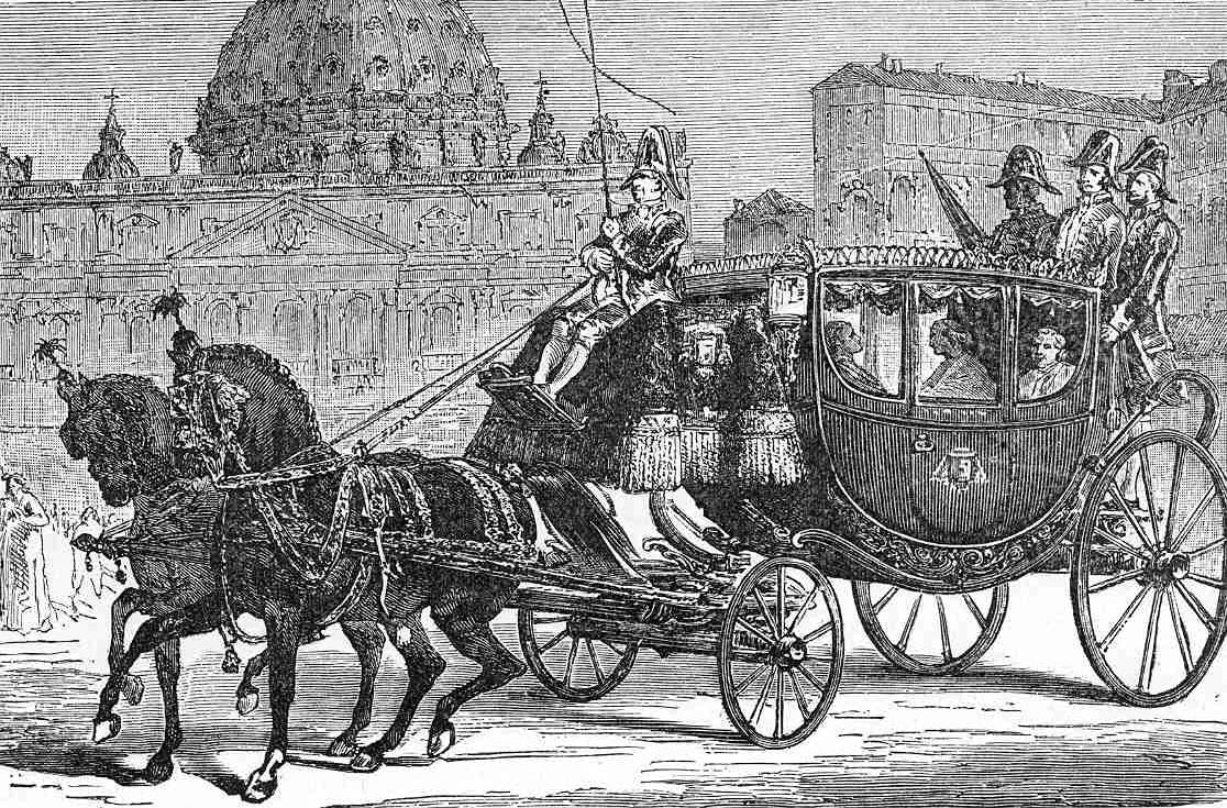 Copyright expired drawing ofcarriage of Pius IX in 1870